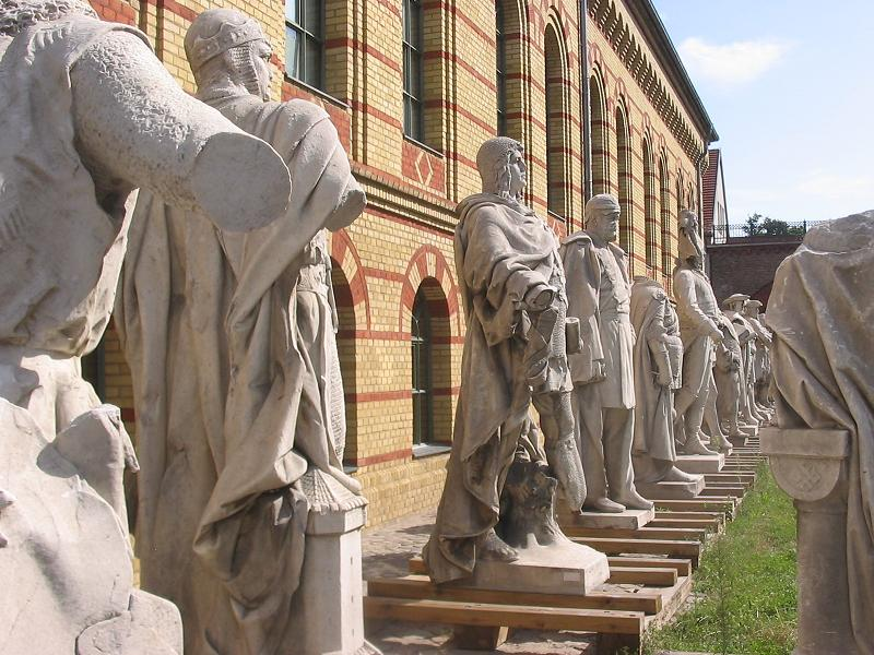 Statues of the former Siegesallee in the Spandau Citadel in August 2009, before its conservation-restoration.